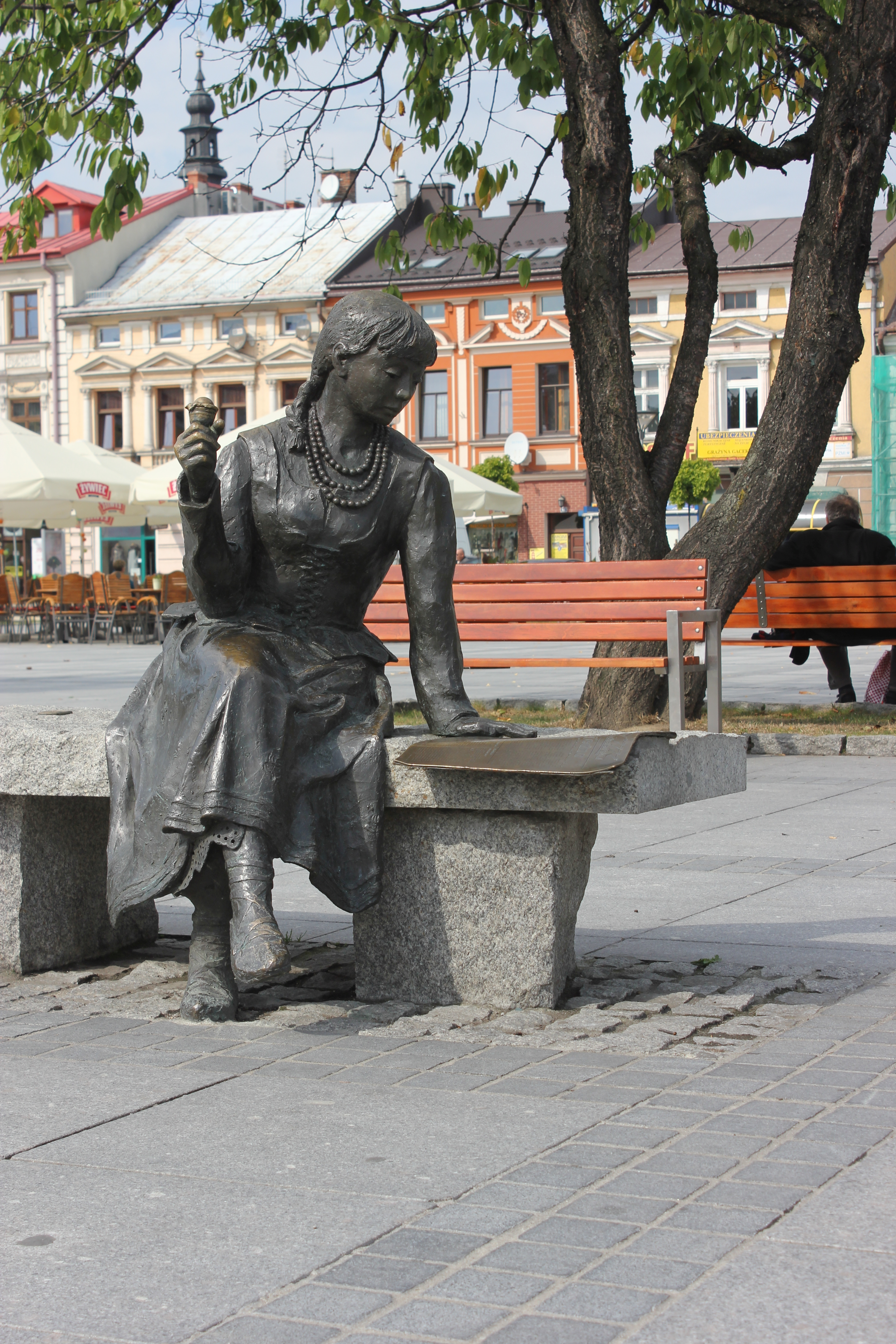 Nowy Targ - "the bench of a highland woman"